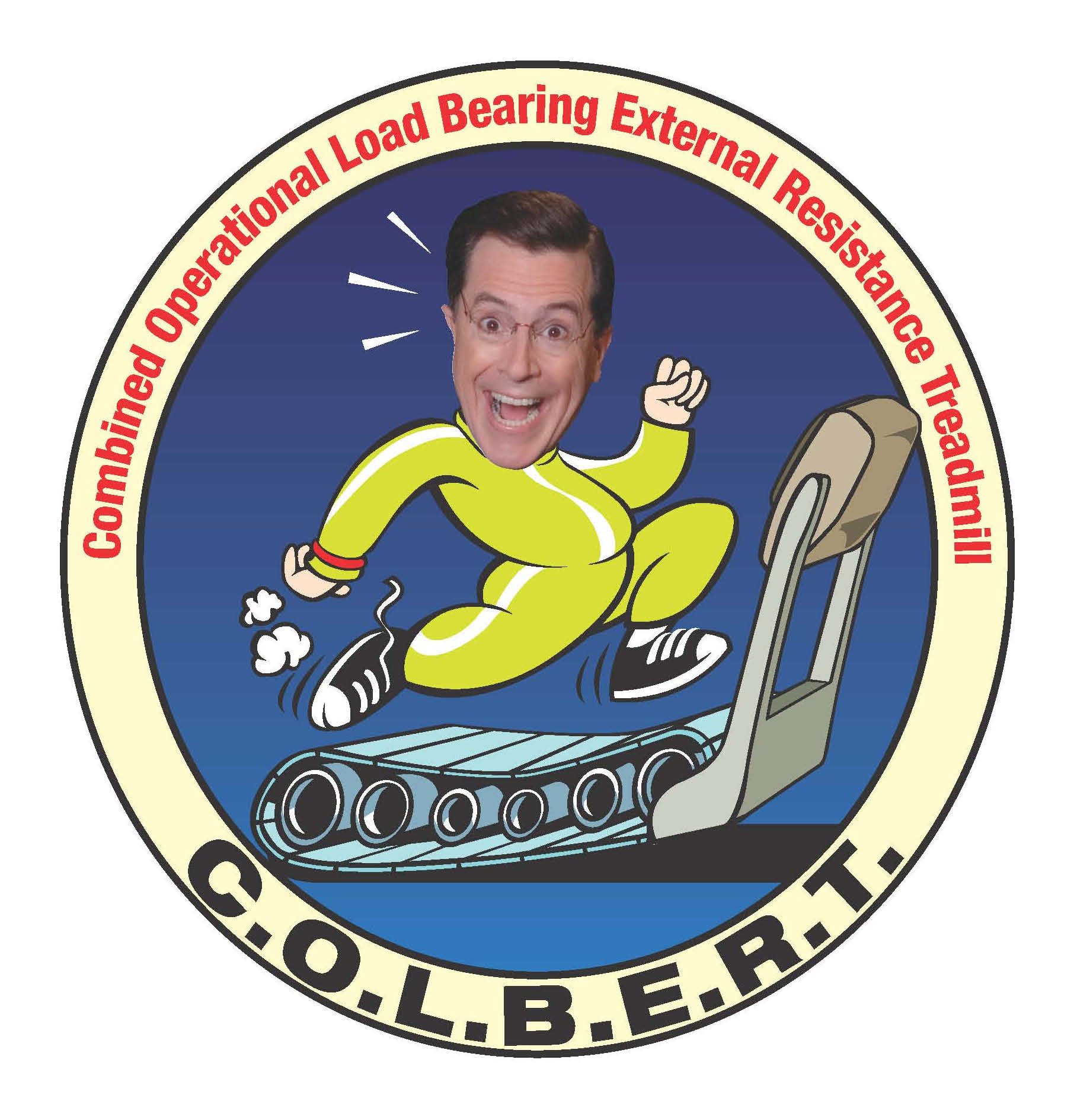 Official patch for "COLBERT," the Combined Operational Load Bearing External Resistance Treadmill, due to launch on shuttle Discovery as early as August 2009.